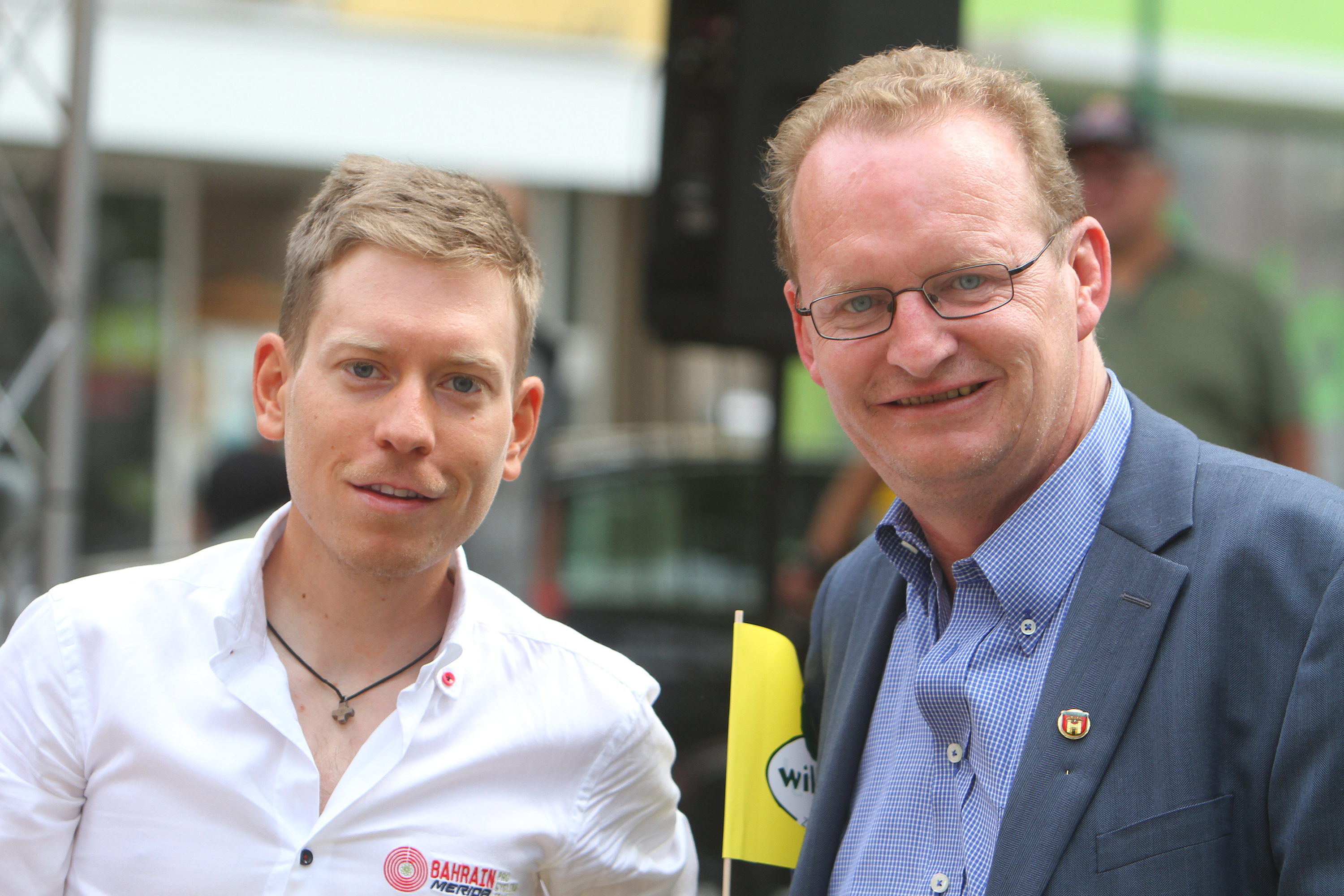 2019 Tour of Austria 3rd stage from to at 2019-07-09. – The photo shows Hermann Pernsteiner (left) and the major from Kirchschlag in der Buckligen Welt Josef Freiler (right).